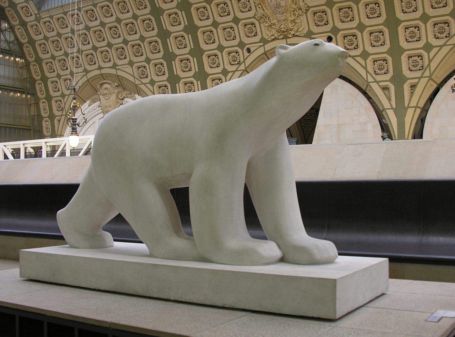 Ours blanc (Polar Bear) by François Pompon (May 9, 1855 – May 6, 1933), exposed in the Musée d'Orsay, Paris.